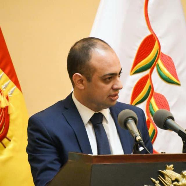 Mohammed Mostajo-Radji addresses Bolivia during his inauguration as Science, Technology and Innovation Ambassador on February 13th, 2020